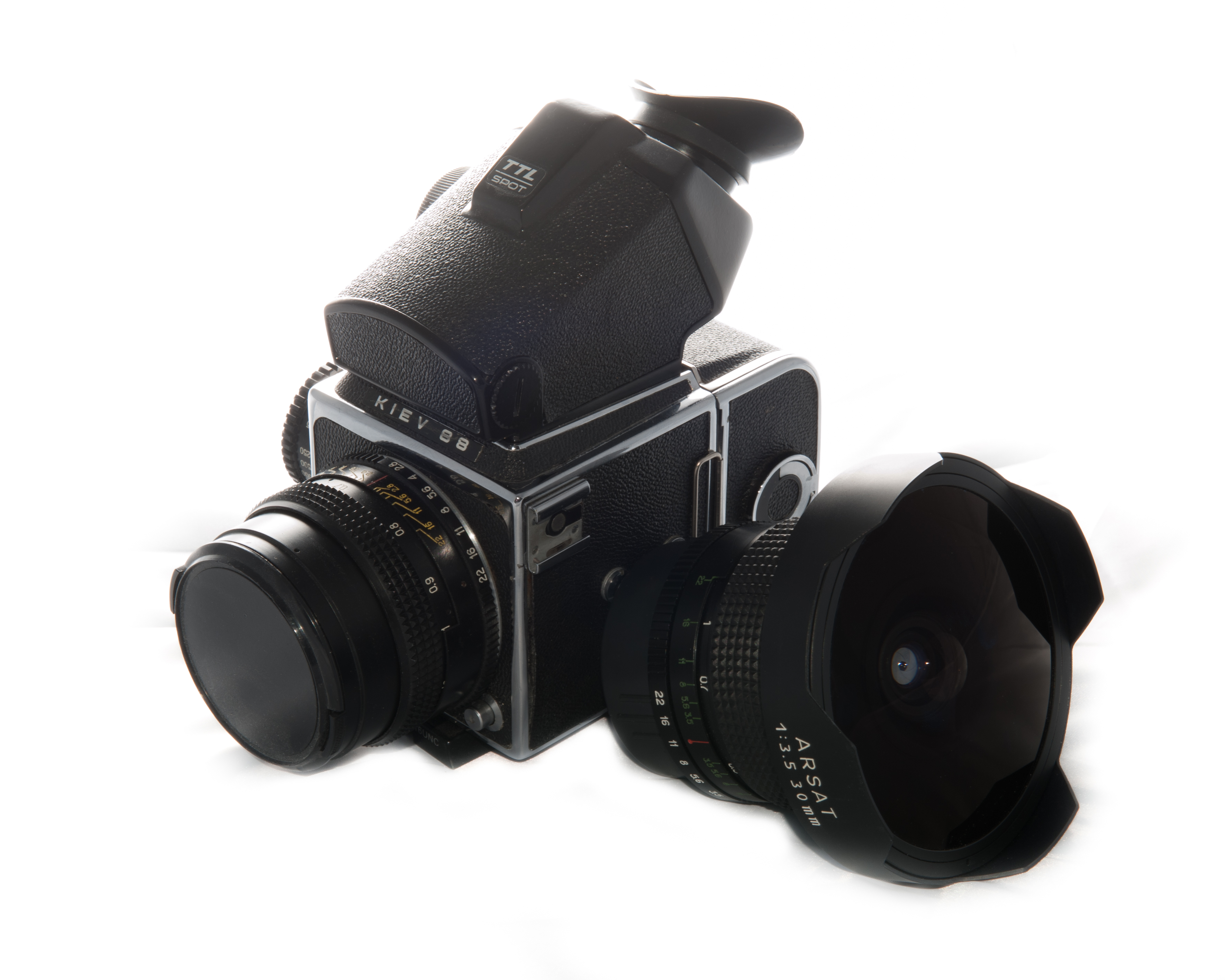 A Kiev 88 medium format camera with his MC Volna-3 standard lens and Arsat Fisheye